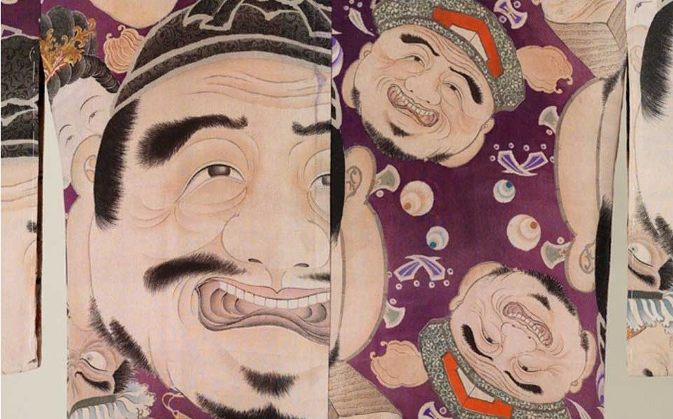 Woman's nagajuban (detail), japan, 1890-1910, silk, crepe weave, hand-painted, paste-resist dyed, Honolulu Museum of Art